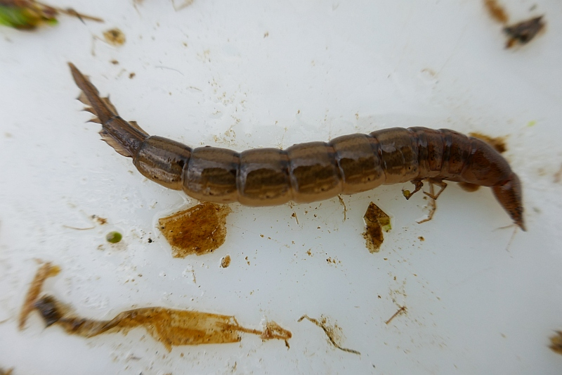 Cybister lateralimarginalis (Dytiscidae) - (larva), Gouderak - Polder Kattendijksblok, the Netherlands